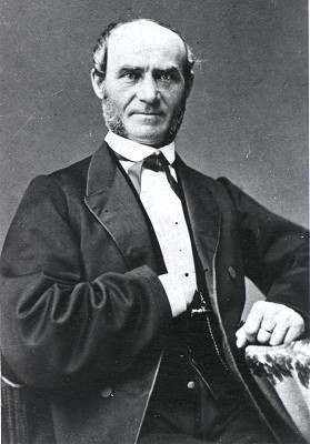 Uno Cygnaeus, Finnish priest and schoolman